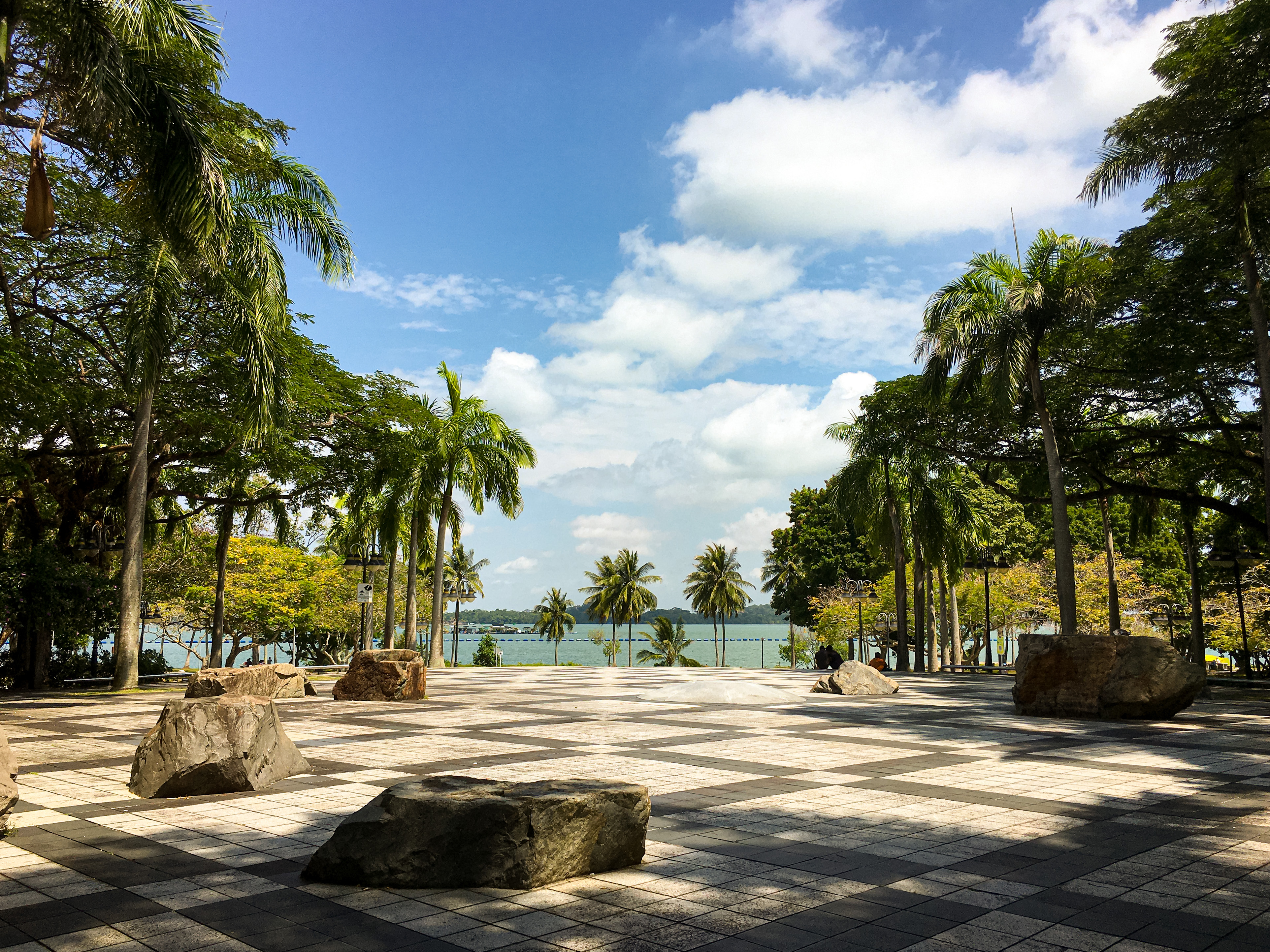 Pasir Ris Park, Singapore - due to the Wuhan virus, the locals looking for out of hot spot places for the festive holiday